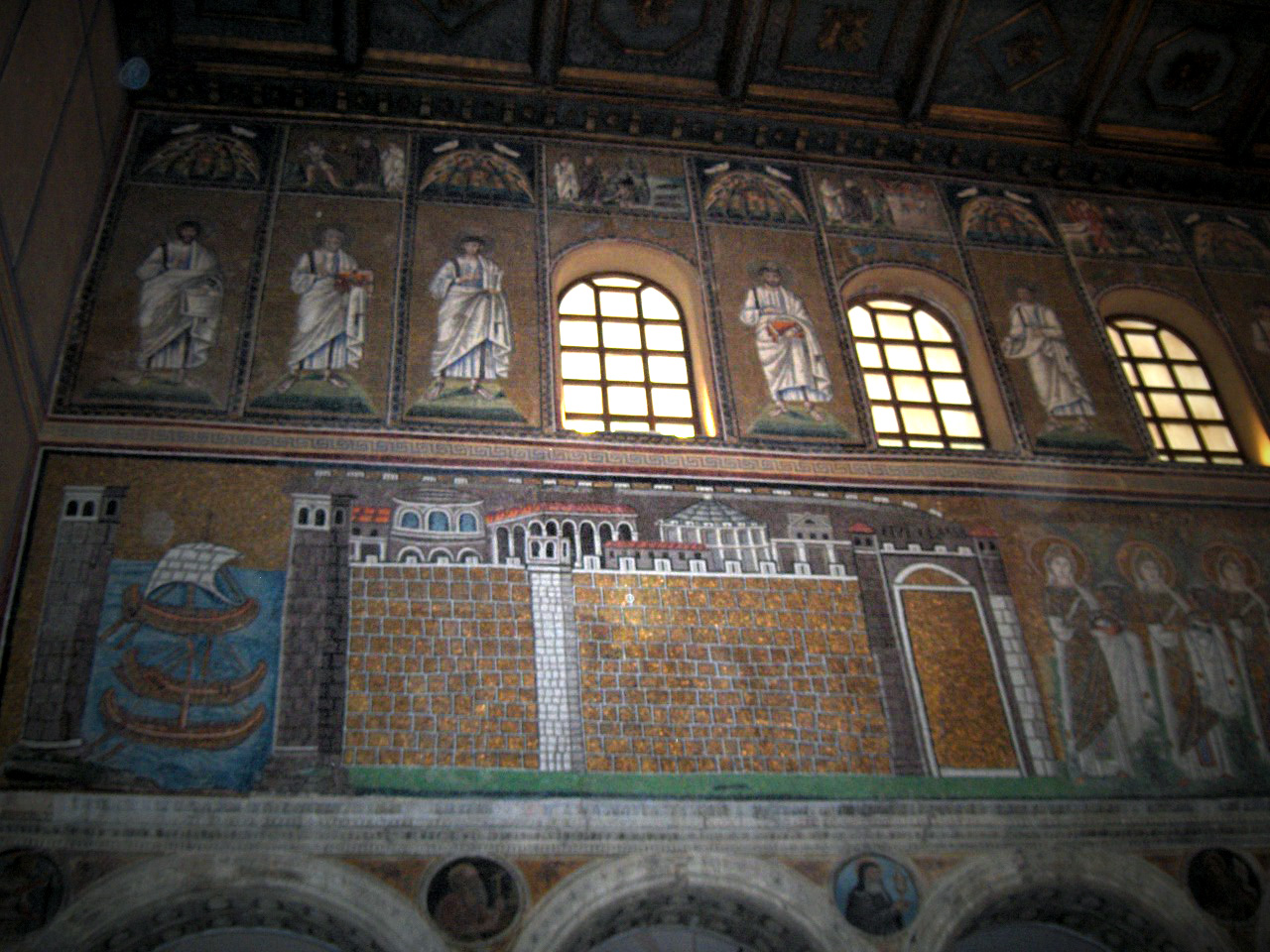 Basilica of Sant'Apollinare Nuovo in Ravenna, Italy: "The port of Classis". Mosaic of a Ravennate italian-byzantine workshop, completed within 526 AD by the so-called "Master of Sant'Apollinare".